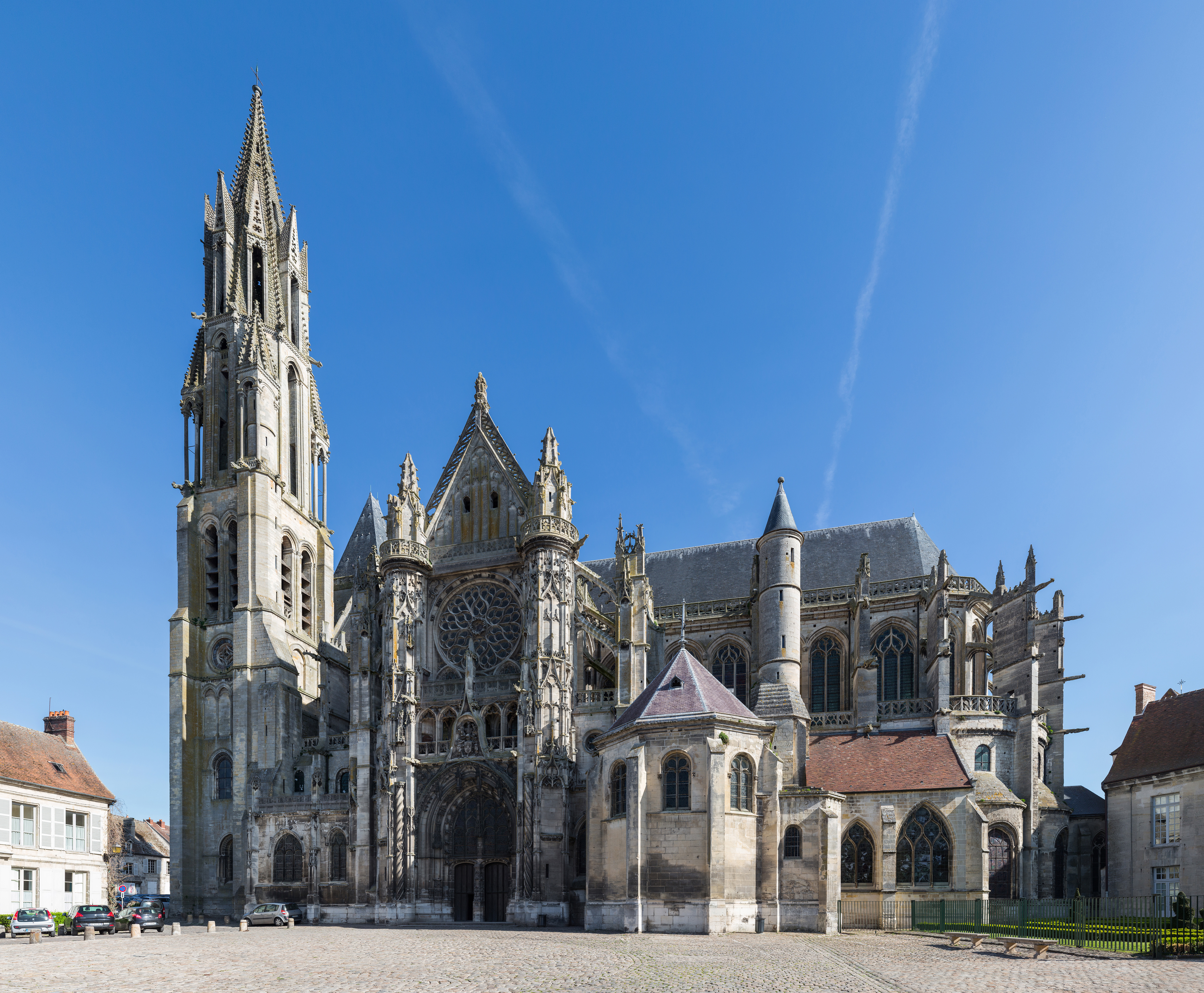 The exterior of Senlis Cathedral viewed from the south in Place de Notre Dame in Picardy, France.